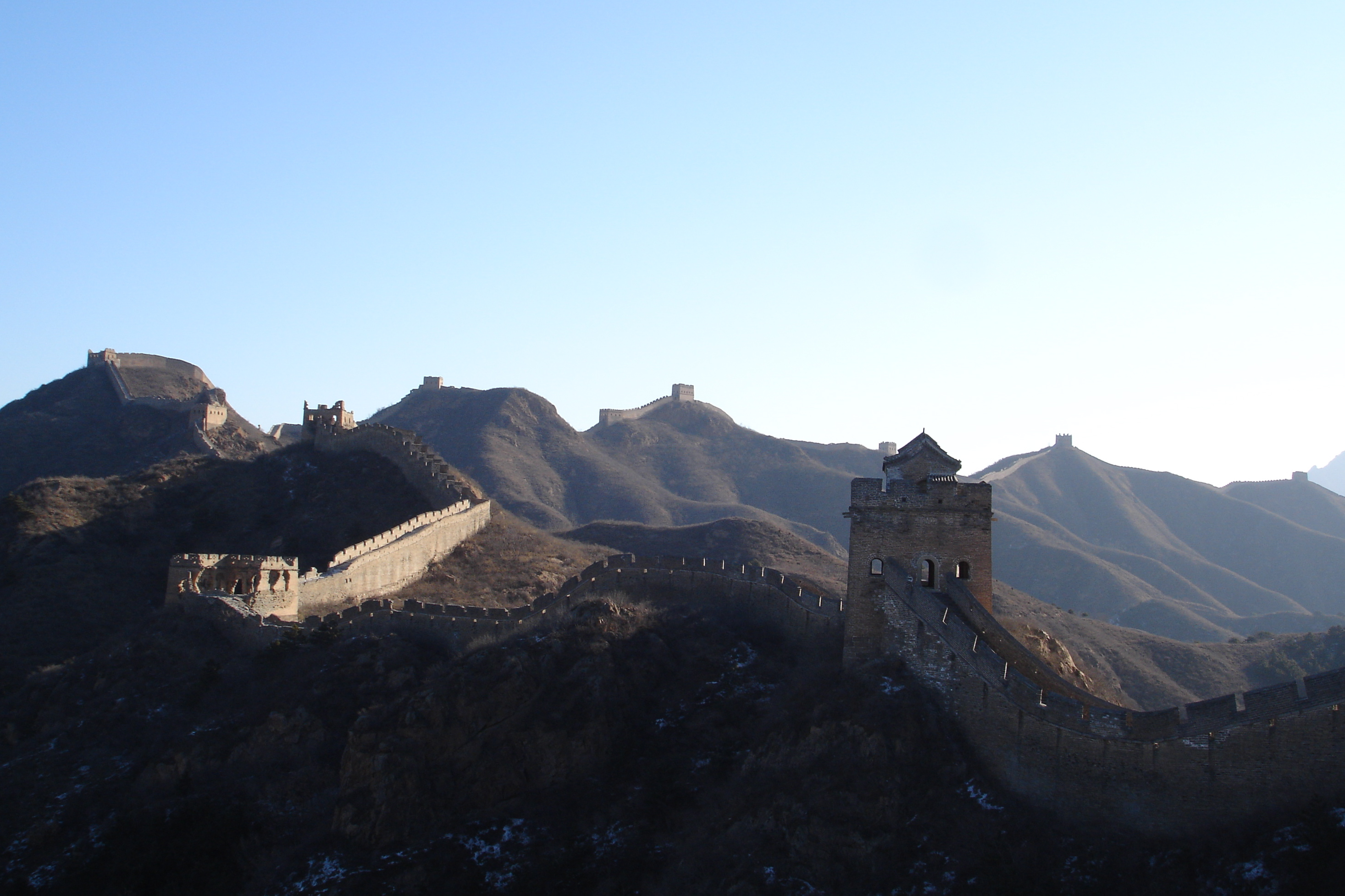 Great Wall of China, at Jinshanling. Taken with Sony DSC-P200.